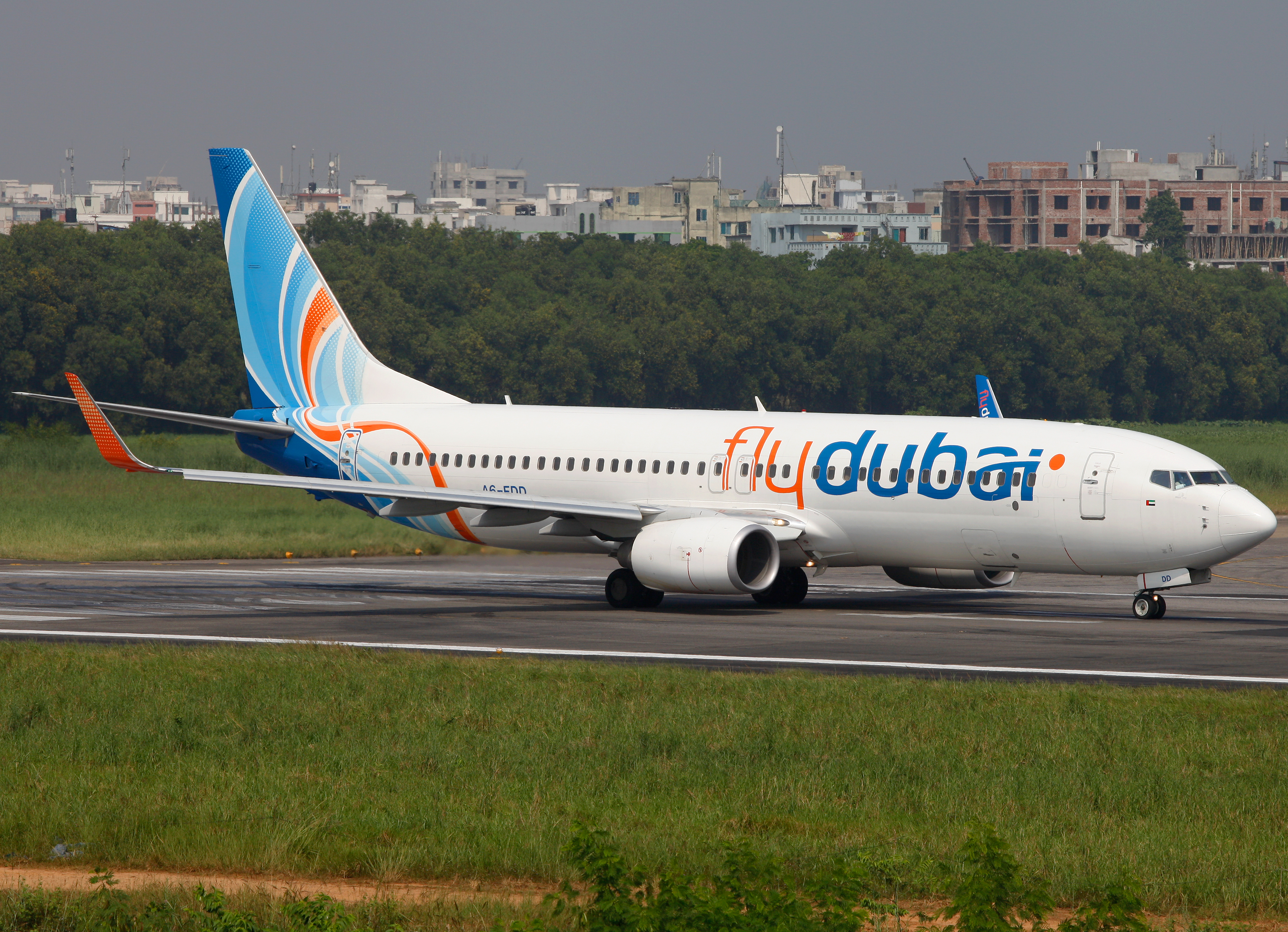 A6-FDD Boeing 737-800 Flydubai Lined Up for Take Off at Hazrat Shahjalal International Airport Dhaka ( DAC / VGHS )